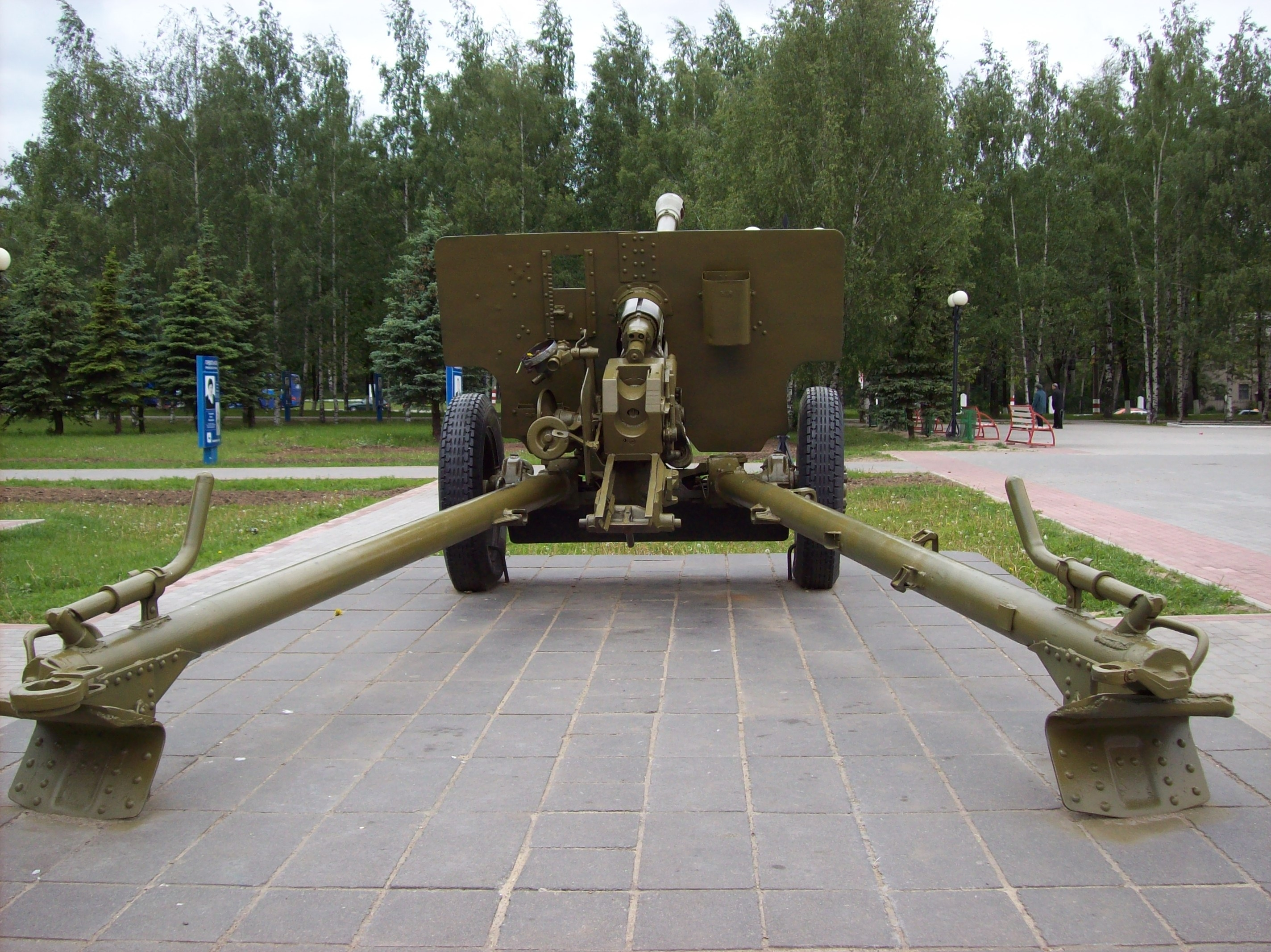 76 mm divisional gun M1942 (ZiS-3)